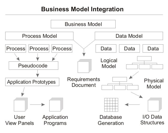 Process and data modeling